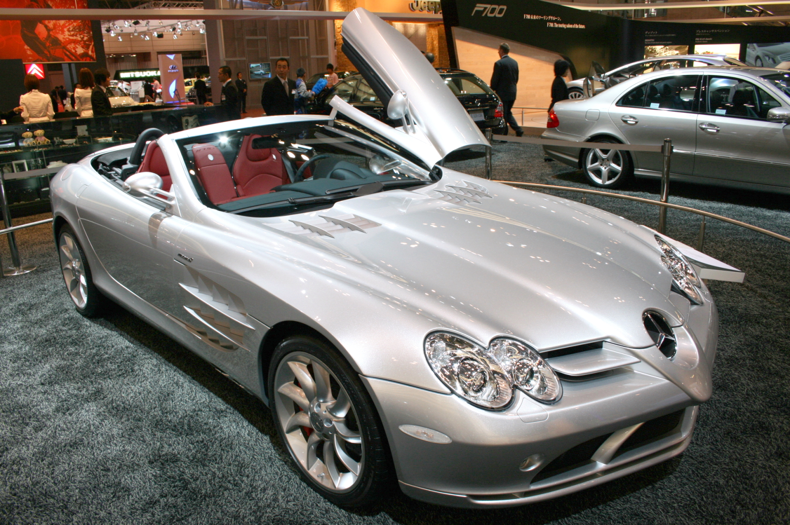 Mercedes-Benz SLR McLaren in Tokyo Motor Show 2007